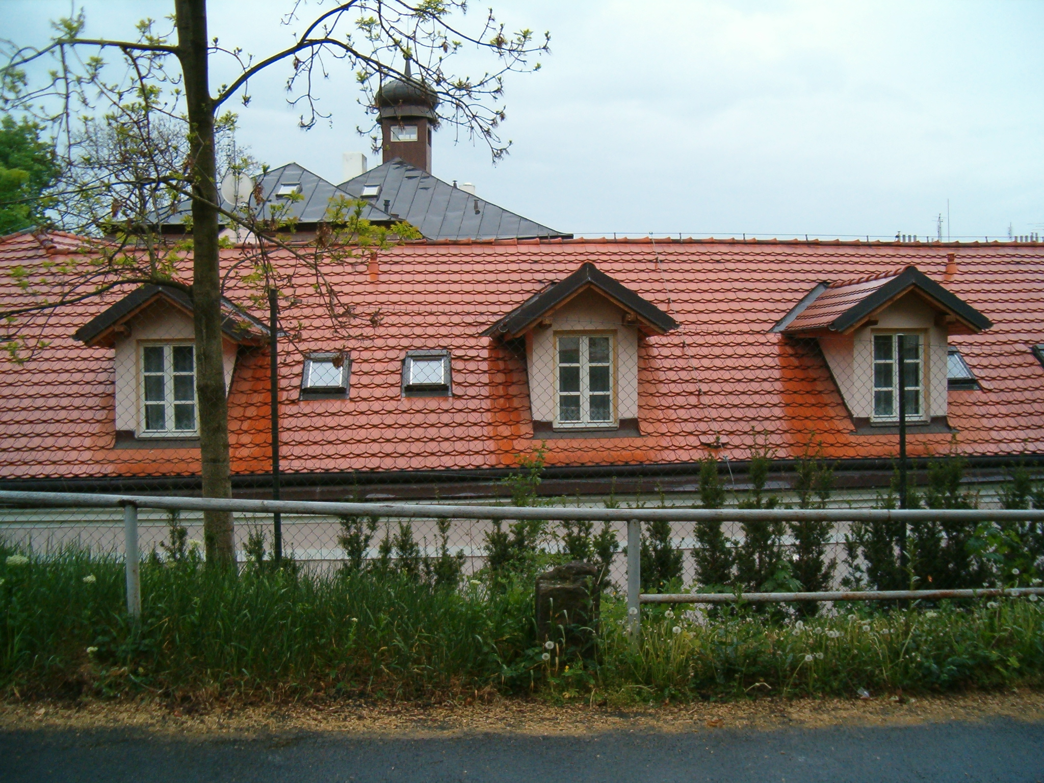 Perníkářka homestead in Smíchov in Prague